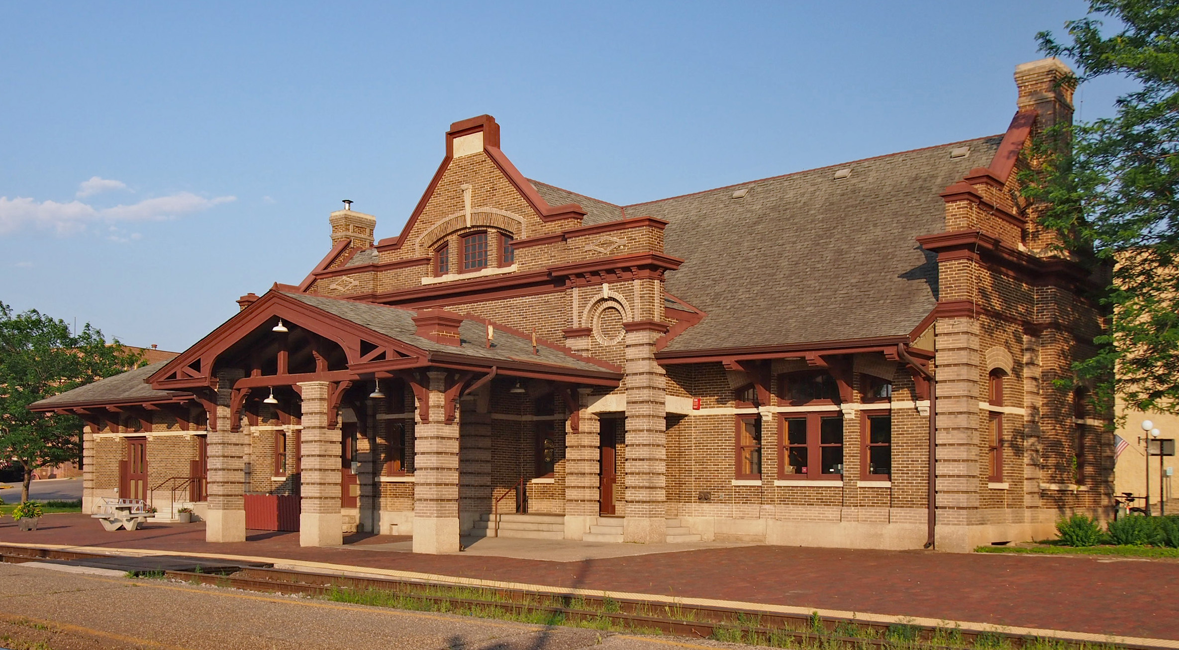 Red Wing Amtrak station (formerly the Chicago, Milwaukee, and St. Paul Passenger Depot), Red Wing Mall Historic District, Red Wing, Minnesota, USA. Viewed from the northwest near sundown.